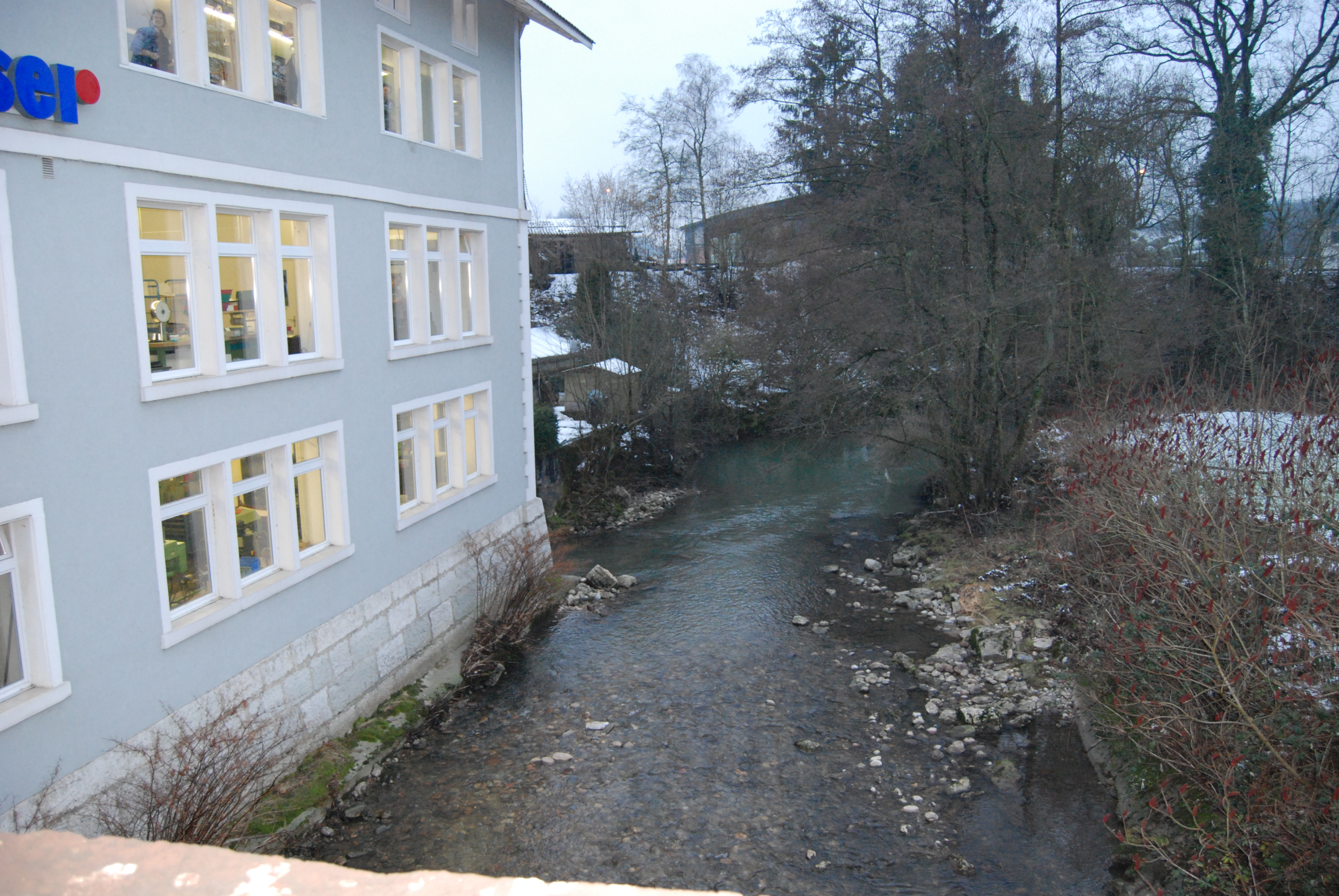 Murg seen from the bridge between Murgenthal (canton of Aargau) and Wynauy (canton Berne), SwitzerlandEsperanto: Murg vidita de la ponto inter Murgenthal (Kantono Argovio) kaj Wynau (Kantono Berno), Svislando